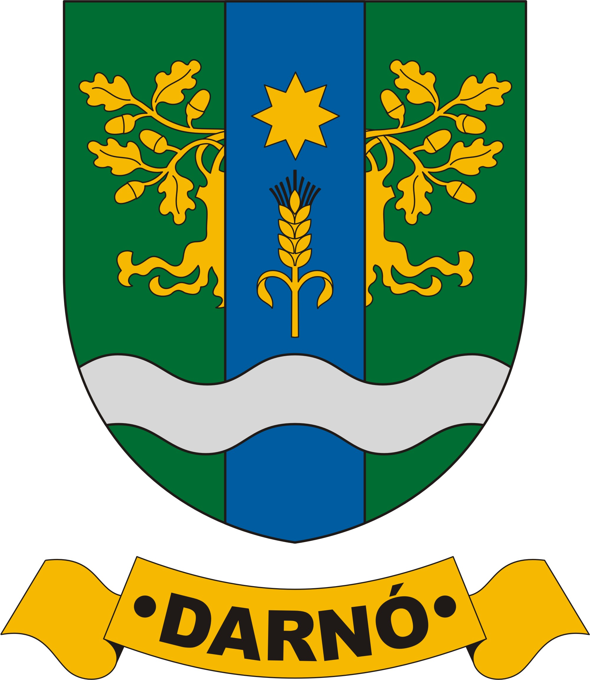 Coat of arms of Darnó, Hungary